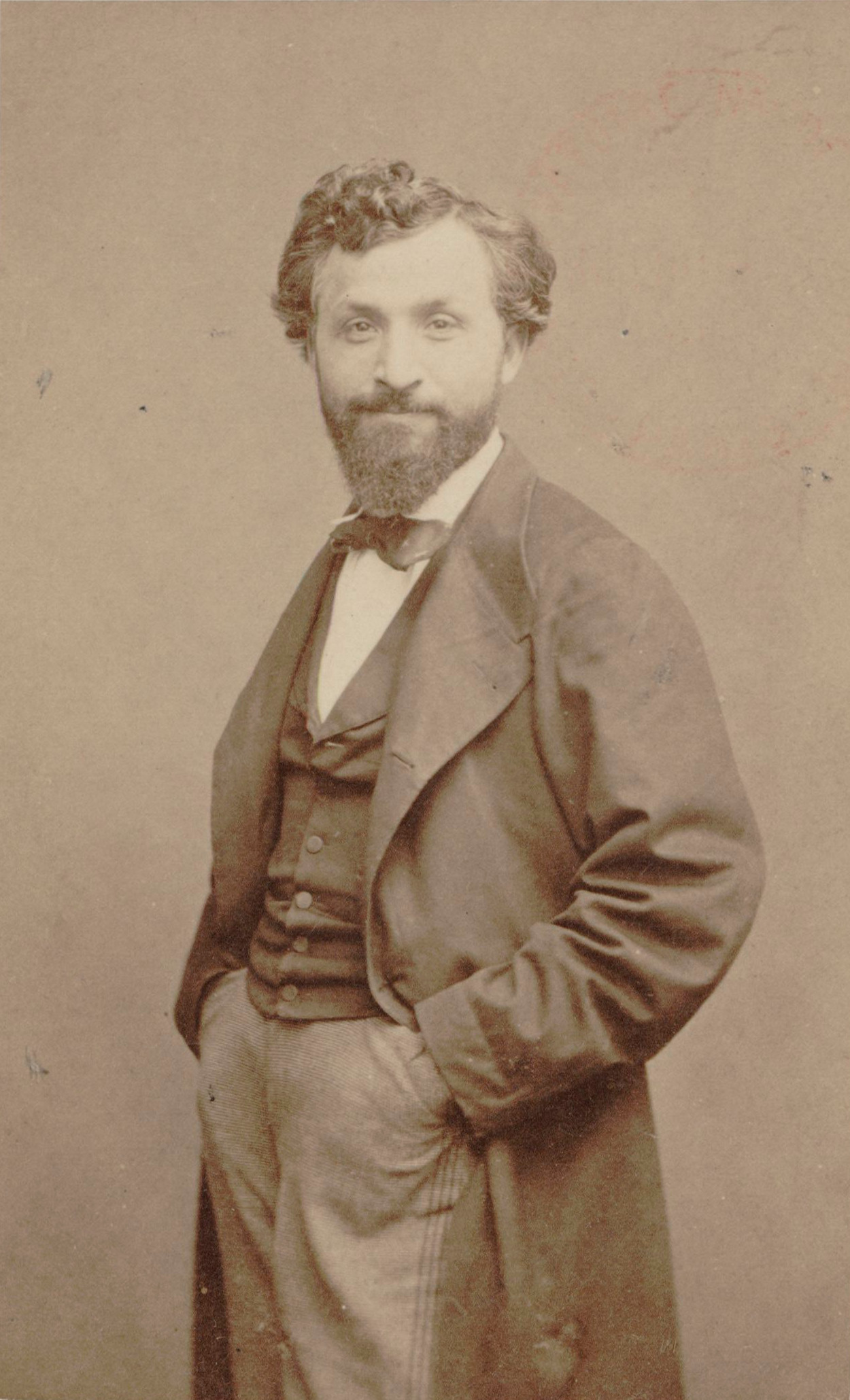 Italian composer and cellist Gaetano Braga (1829-1907). Photograph by Étienne Carjat (1828-1906).